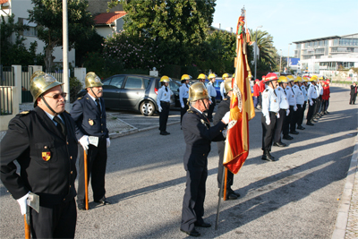 AHBVPA-Meios-Humanos